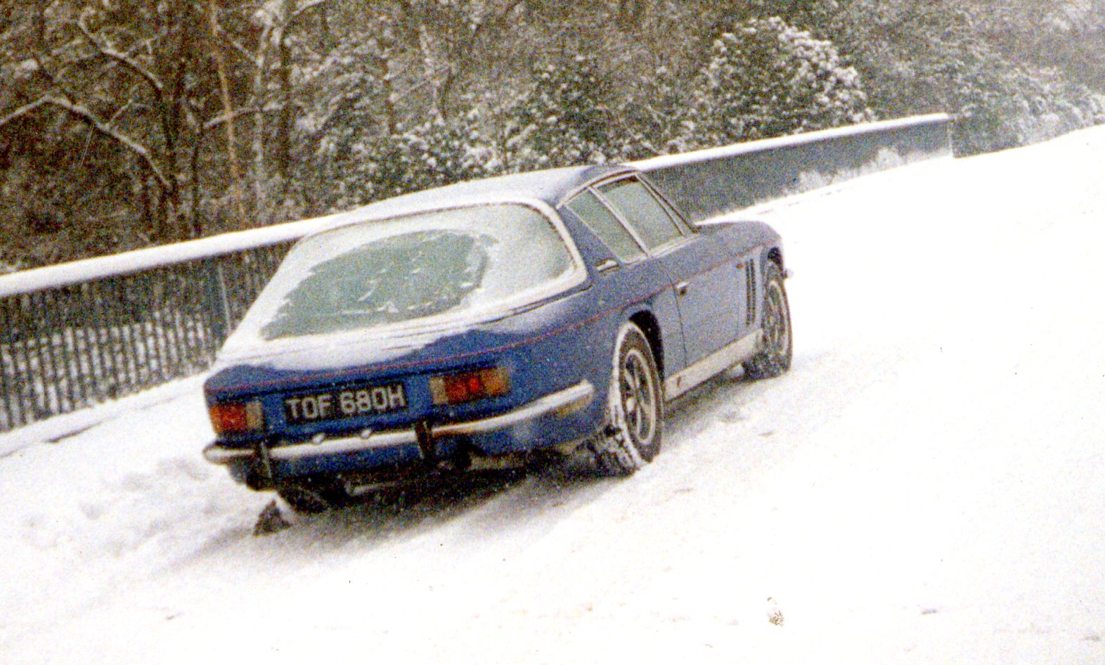 1969 Jensen FF mk11. (DVLA) first reg 27 January 1970 360 bhp four wheel drive in snow on Hubbards Hill, Sevenoaks, Kent.